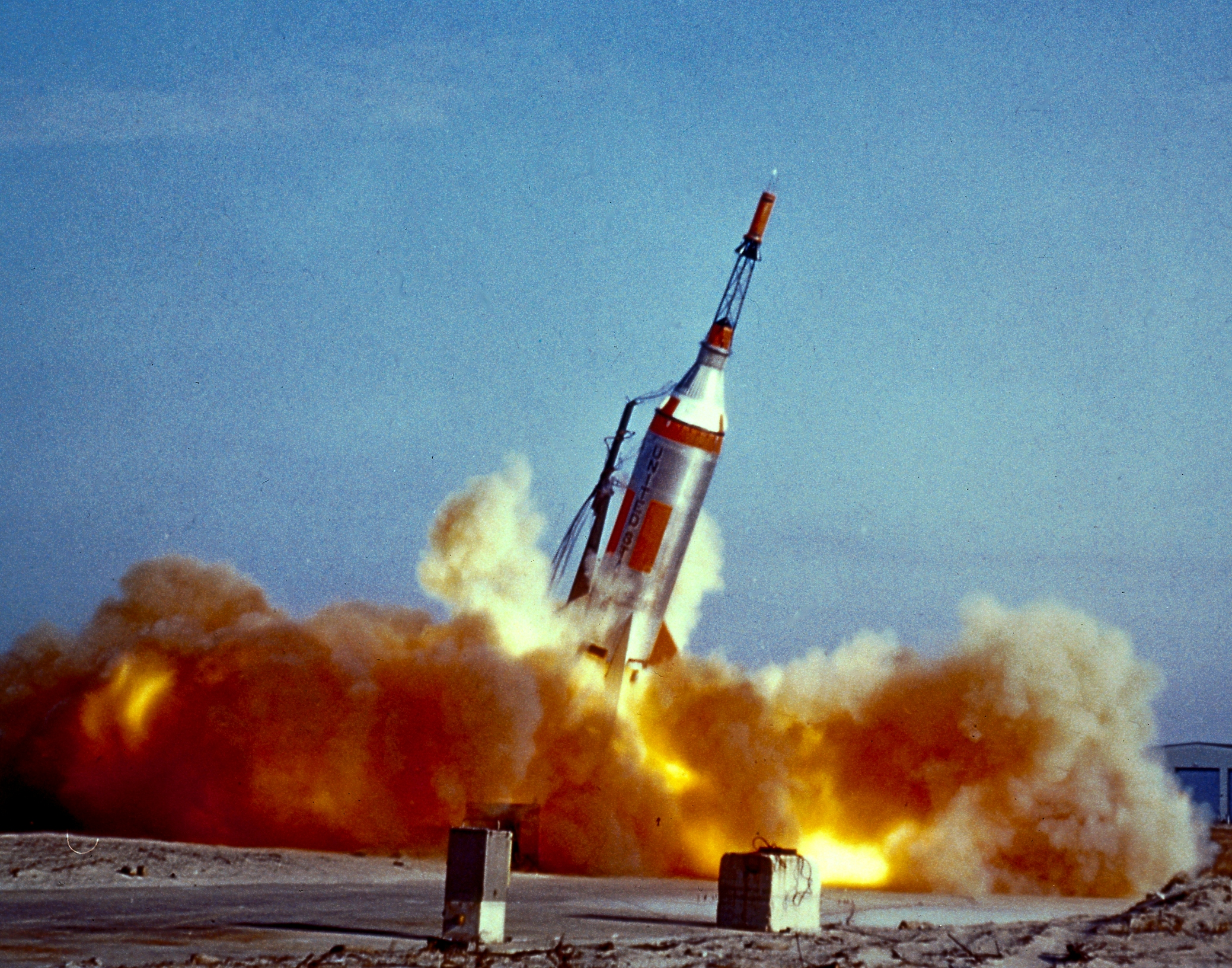 The launch of the Little Joe booster for the LJ1B mission on the launch pad from the Wallops Flight Facility, Wallops Island, Virginia, on January 21, 1960. This mission achieved the suborbital Mercury capsule test, testing of the escape system, and biomedical tests by using a monkey, named Miss Sam.